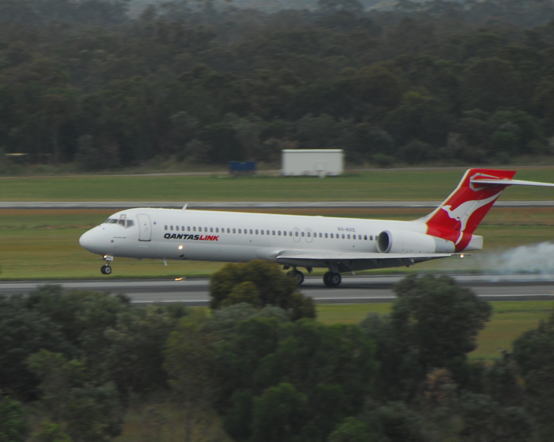 A Qantaslink 717 on touchdown